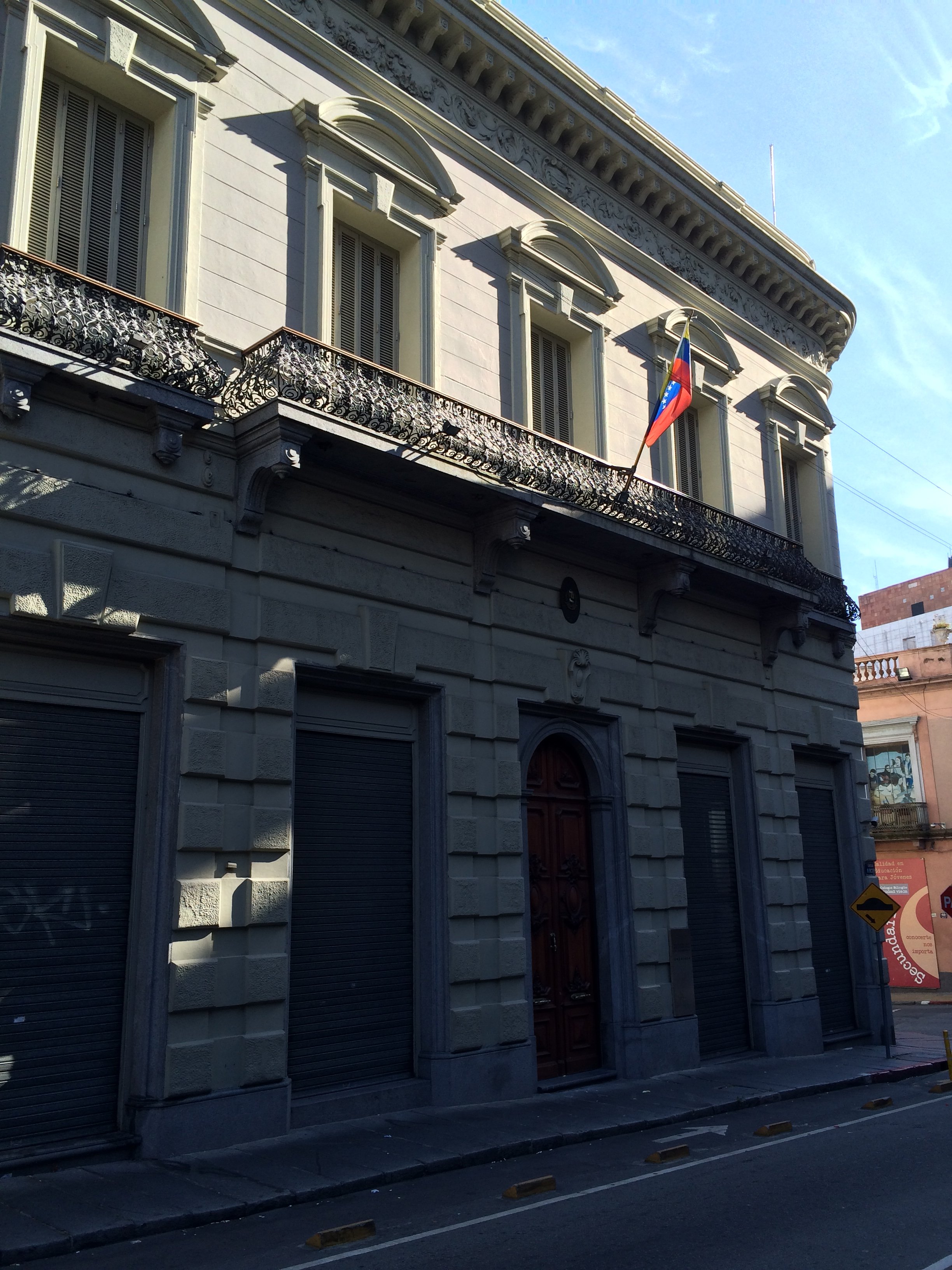 Embassy of Venezuela in Montevideo, Uruguay